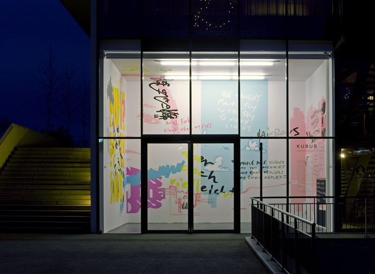 Kubus Lenbachhaus, Petuelpark, Munich